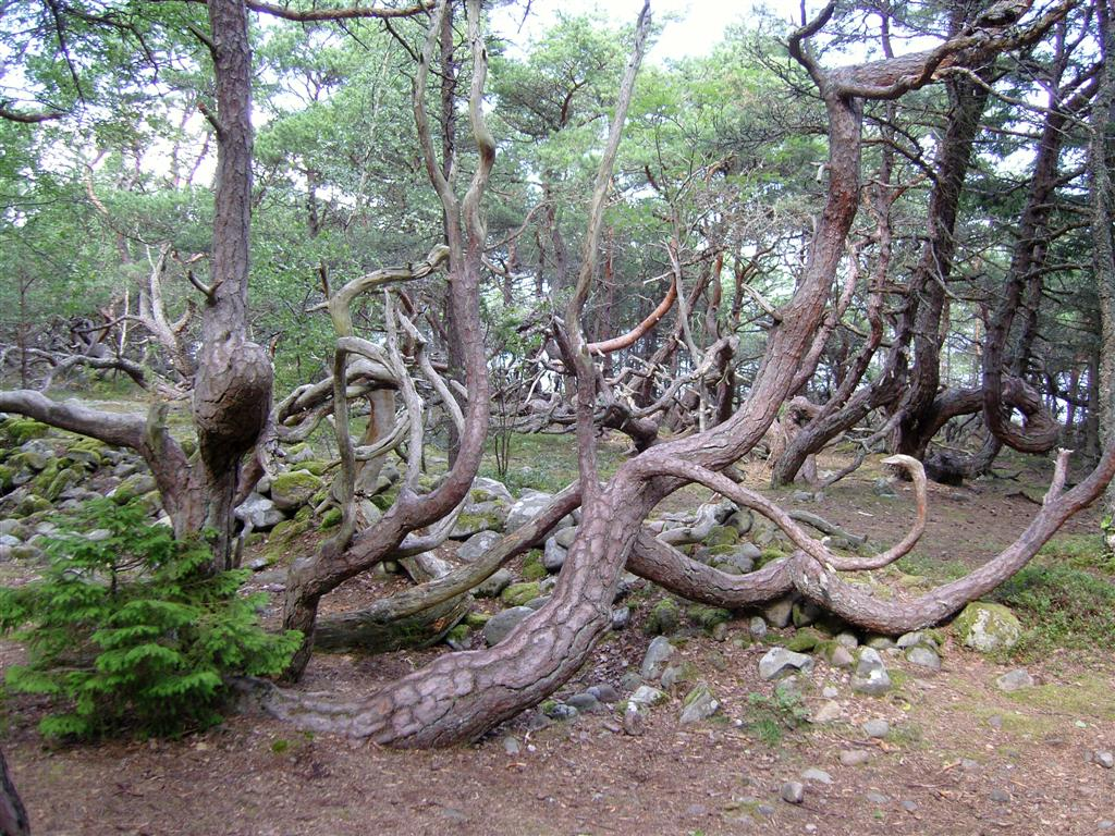 Unusually shaped Scots Pines (battered by strong winds) situated at the coastline of Trollskogen, northern Öland, Sweden.